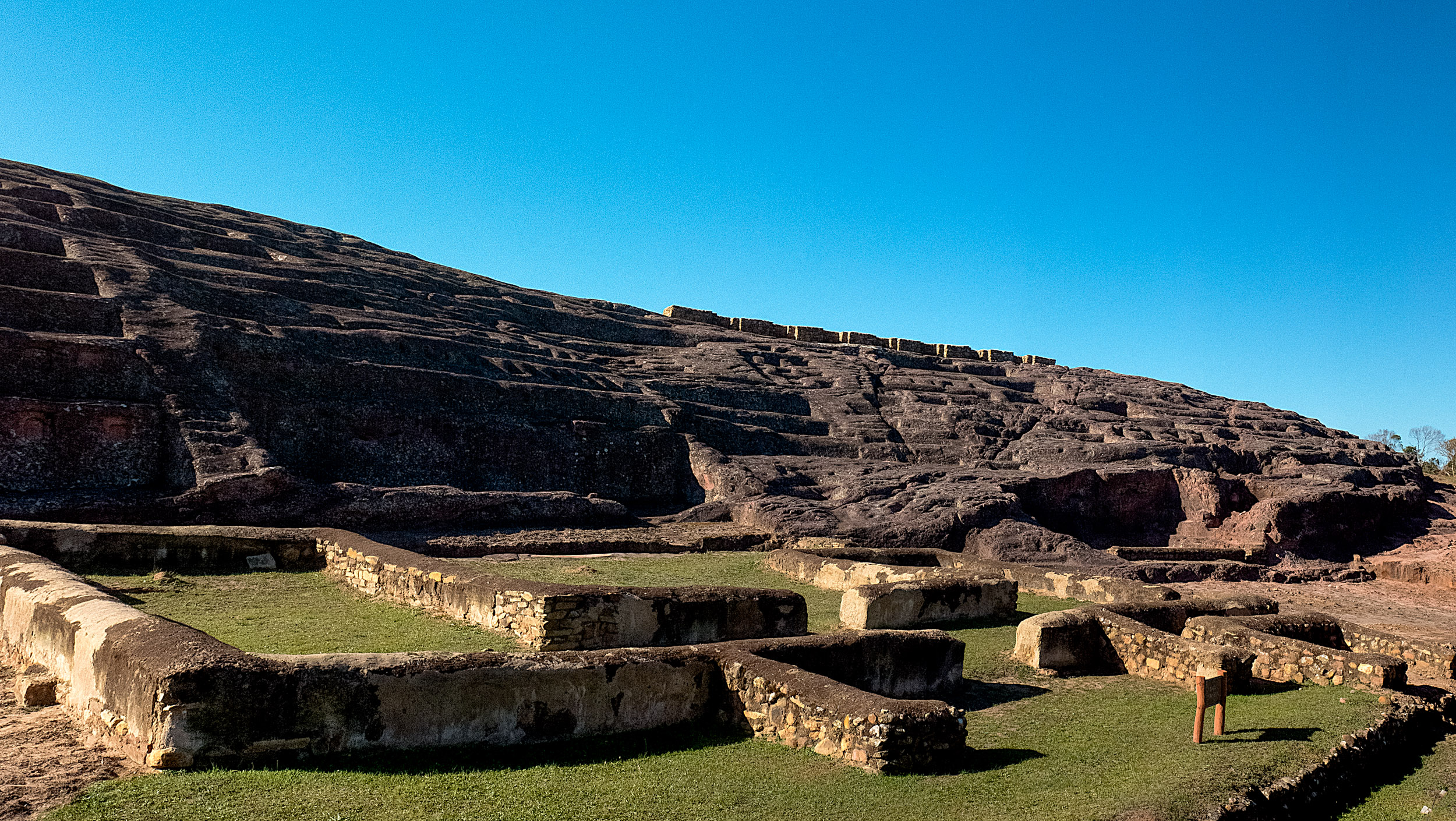 Lateral view of El Fuerte de Samaipata in Santa Cruz, Bolivia.